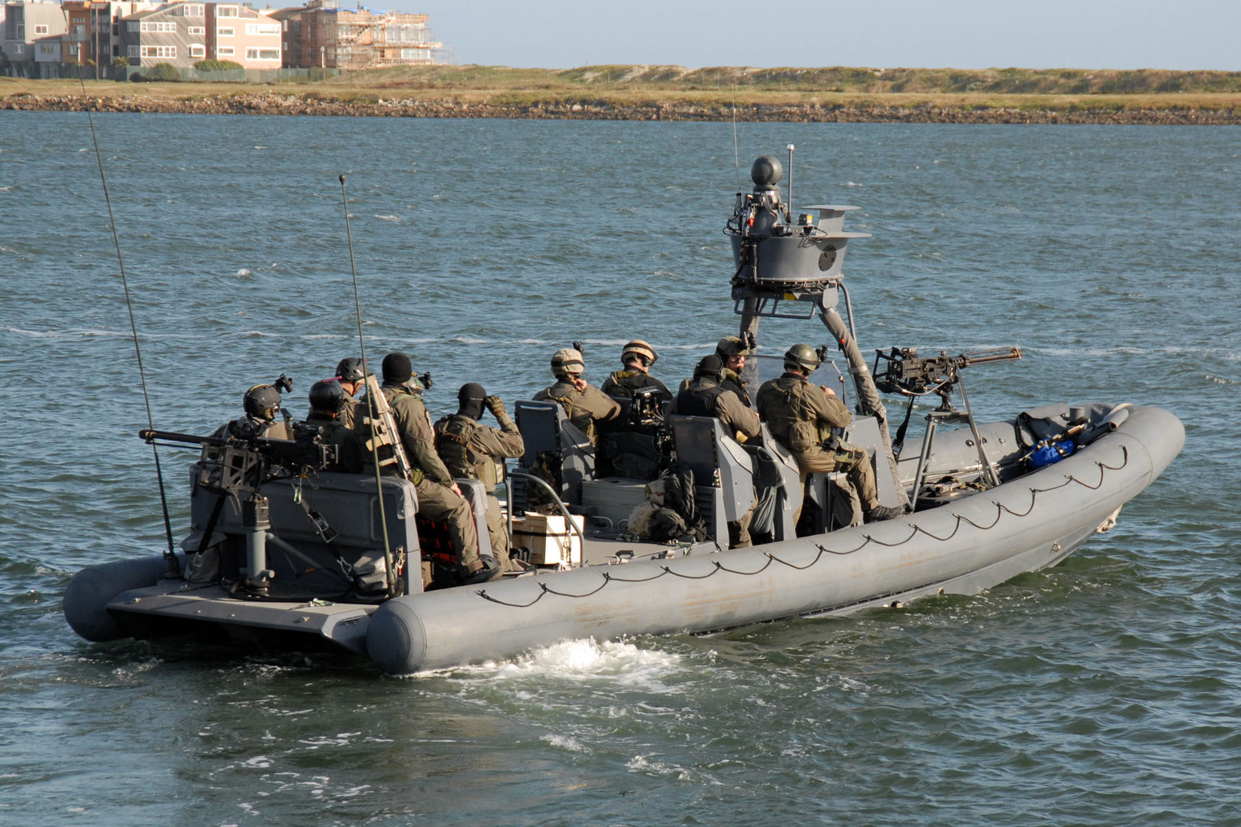 Navy SEALs use heavily armed boats.